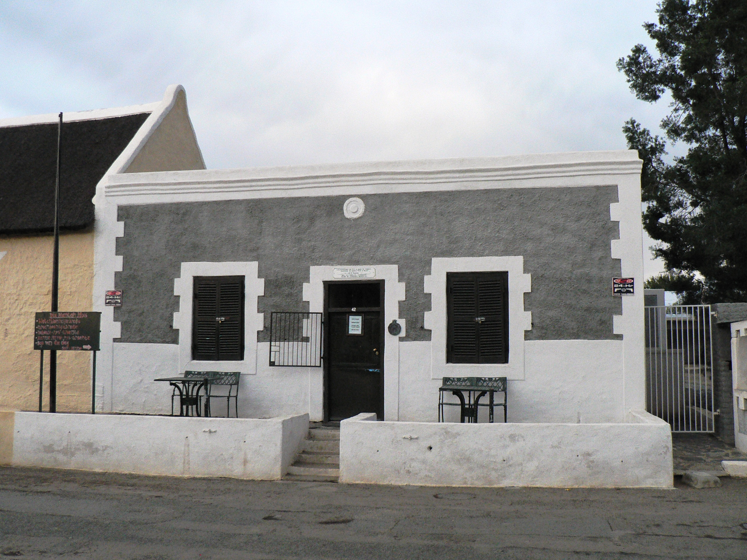 This media shows a South African Protected Site with SAHRA file reference 9/2/017/0009.